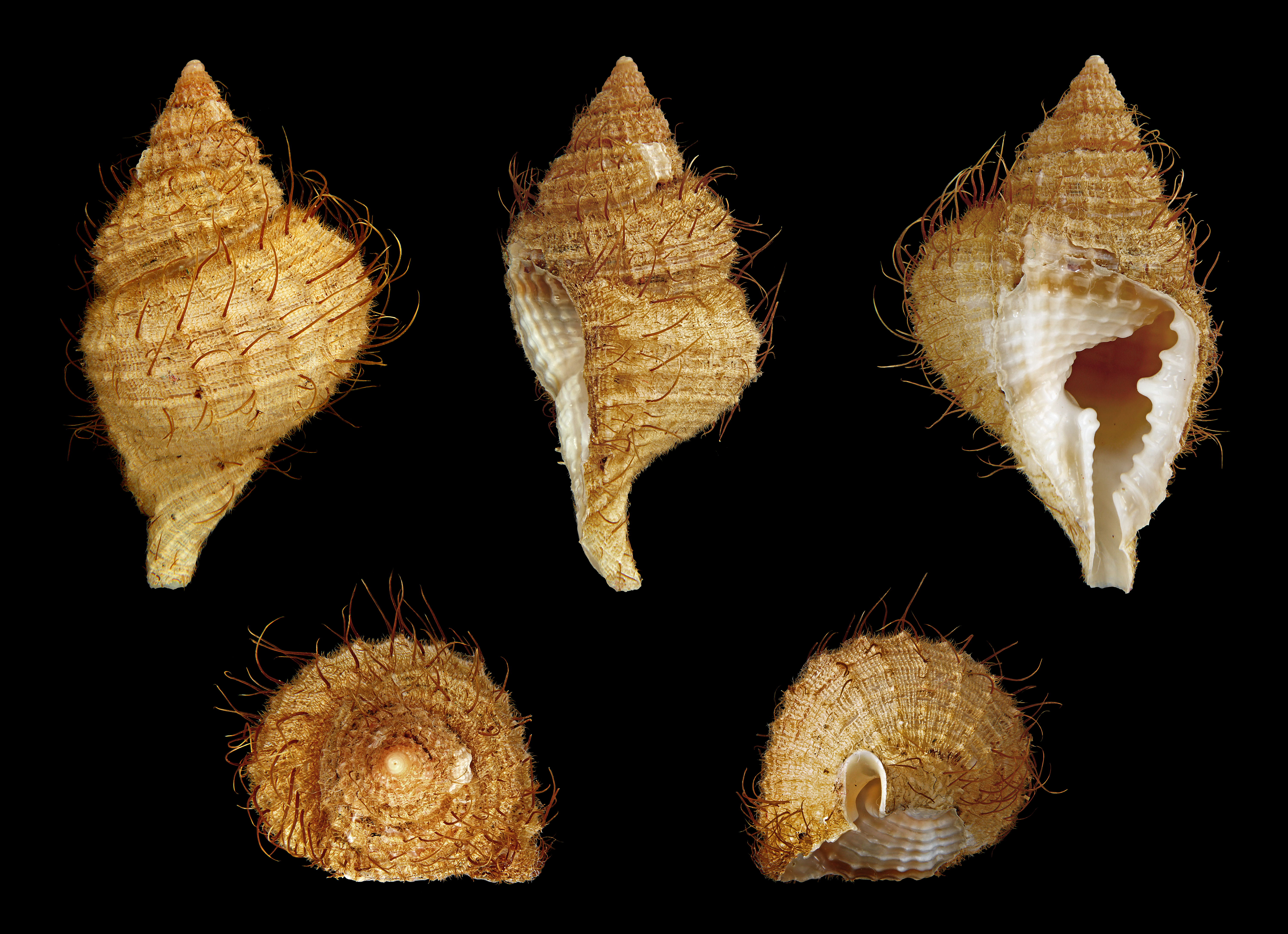 Length 3.4 cm; Originating from Balicasag Island, Philippines; Shell of own collection, therefore not geocoded. Dorsal, lateral (right side), ventral, back, and front view.